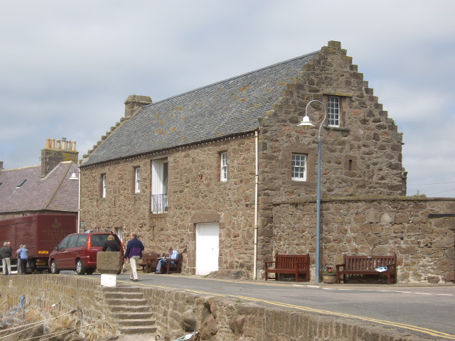 Stonehaven Tolbooth (museum & restaurant) With a sundial at the head of the steps from the harbour beach.